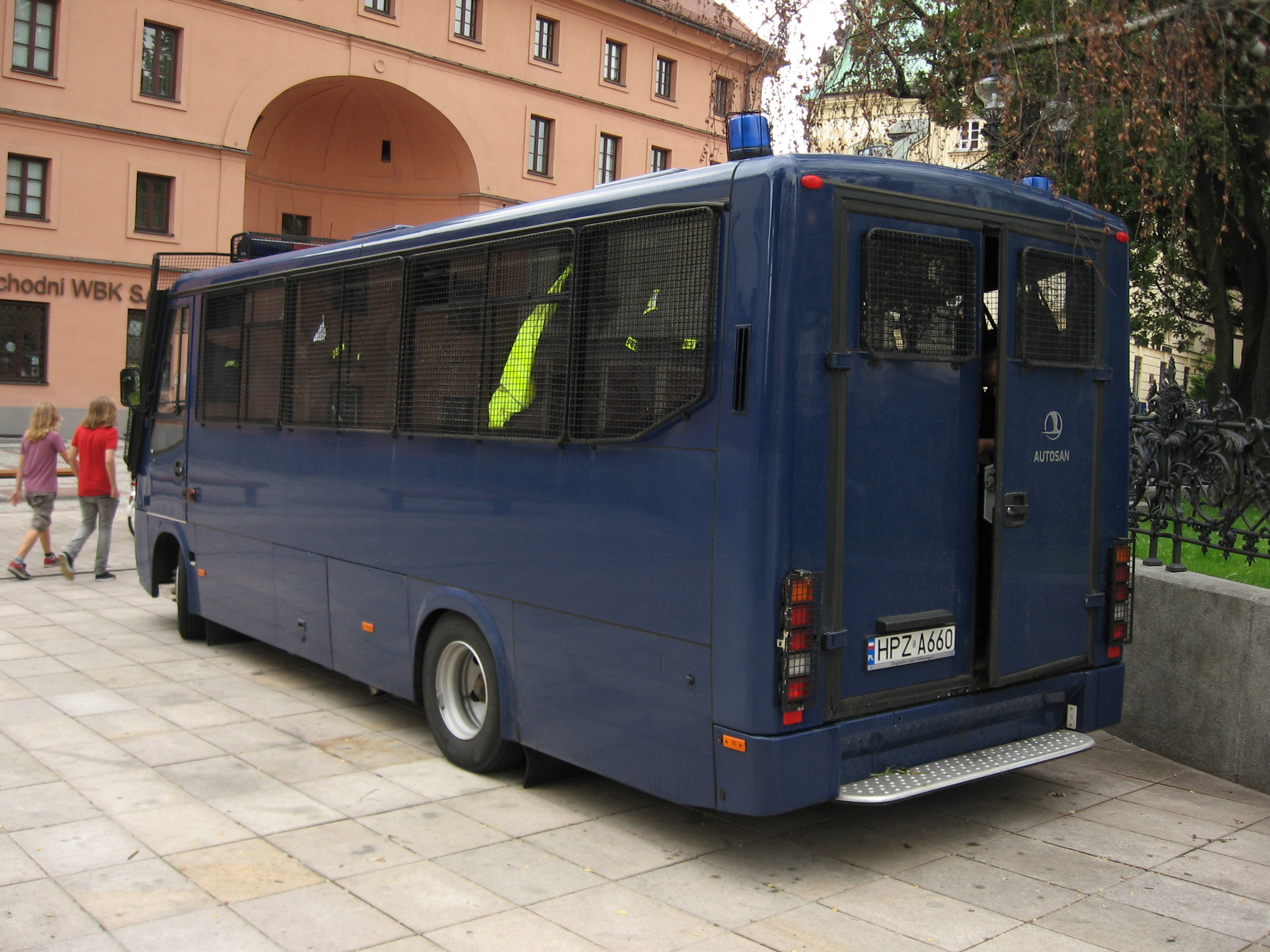 Autosan H7-10I bus (reg. HPZ A660) of the Polish Police in Warsaw, Poland. Built 2005 or 2006.